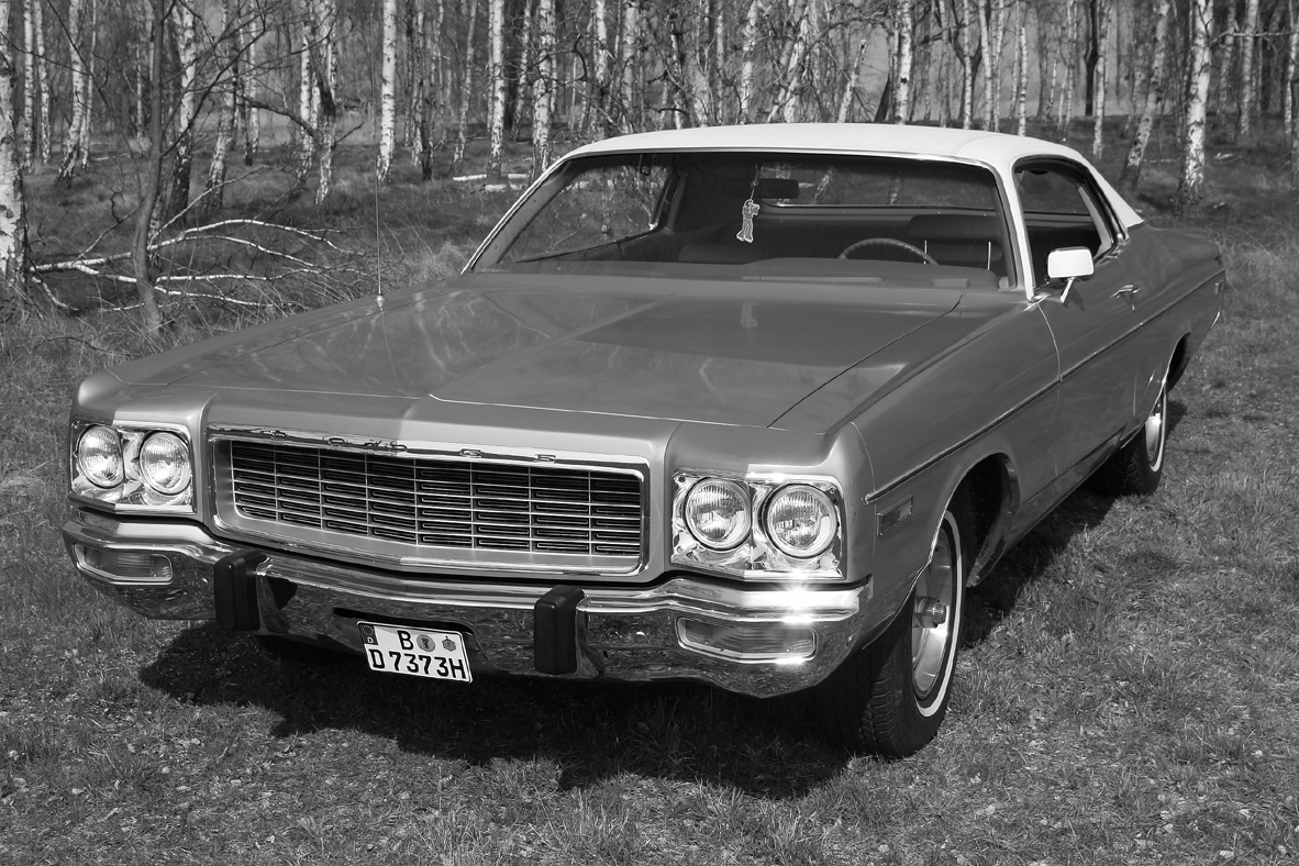 1973 Dodge Polara Custom. Author's own work (